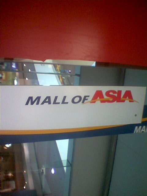 sign of the SM Mall of Asia in Pasay City, Metro Manila There was no original description